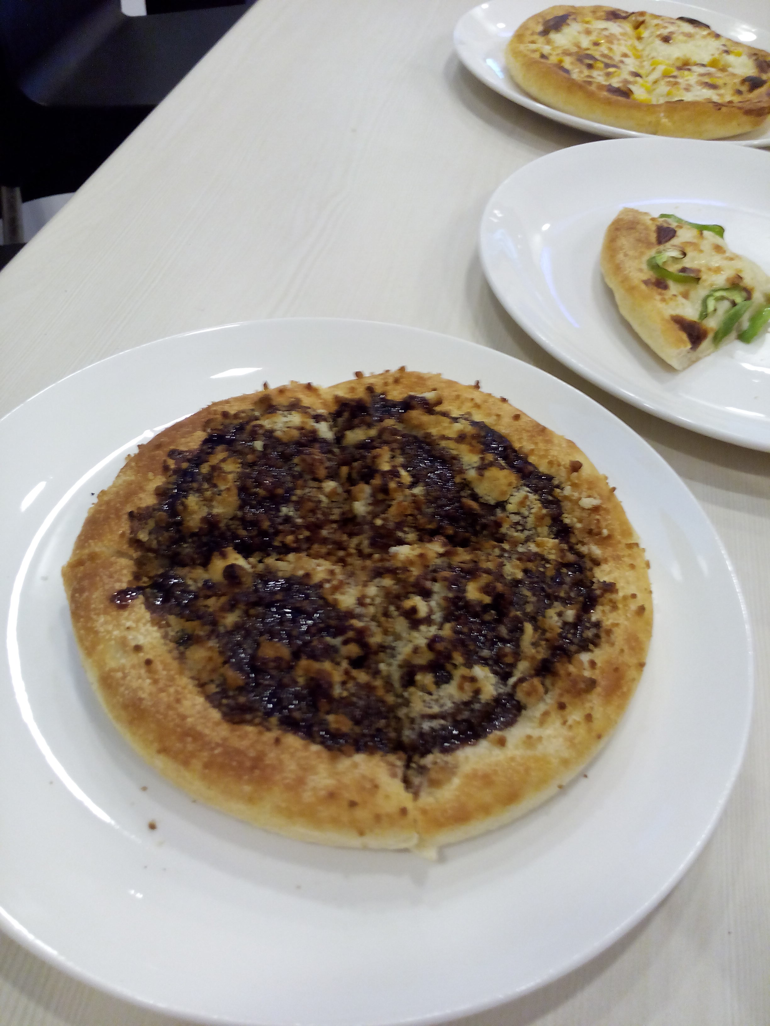 Sweetza- Chocolate sweet Pizza